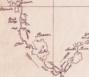 Taught by Philip Turner, David Thompson surveyed for the HBC in northern Saskatchewan and Manitoba before he transferred to the Northwest Company in 1797. Over the next 15 years he surveyed from Lake Superior to the Pacific and, during several years in the Cordillera, unravelled the complex drainage basin of the Columbia River. This is a detail showing the Sturgeon Weir River, Amisk Lake, Cumberland House, Pelican Narrows, Goose Lake, Goose River, and Cranberry Portage in Manitoba and Saskatchewan